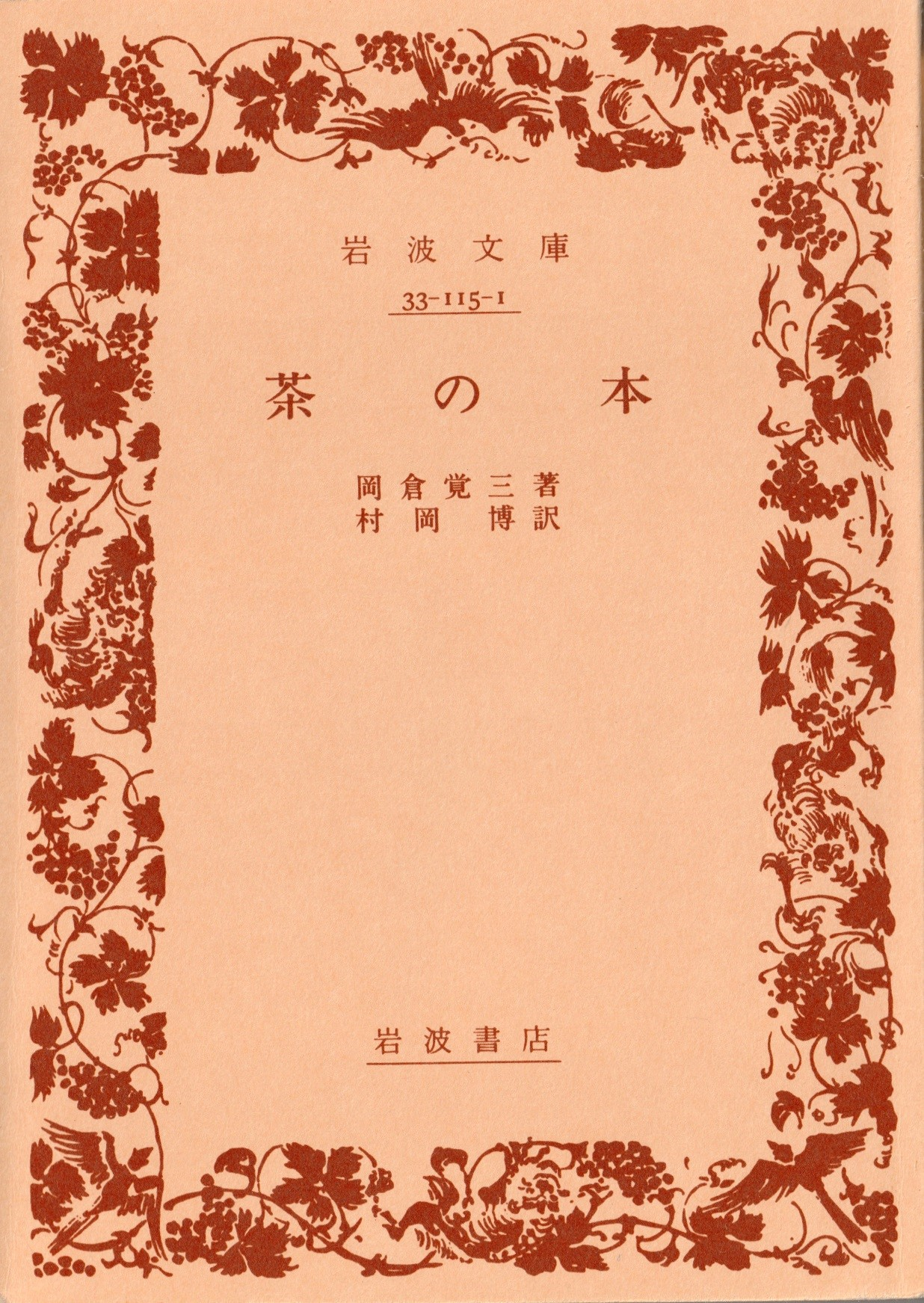 Cover of Iwanami Bunko - Series